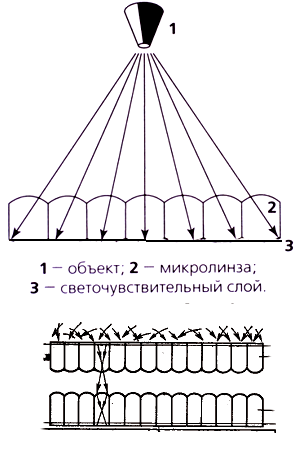 Интегральная фотография